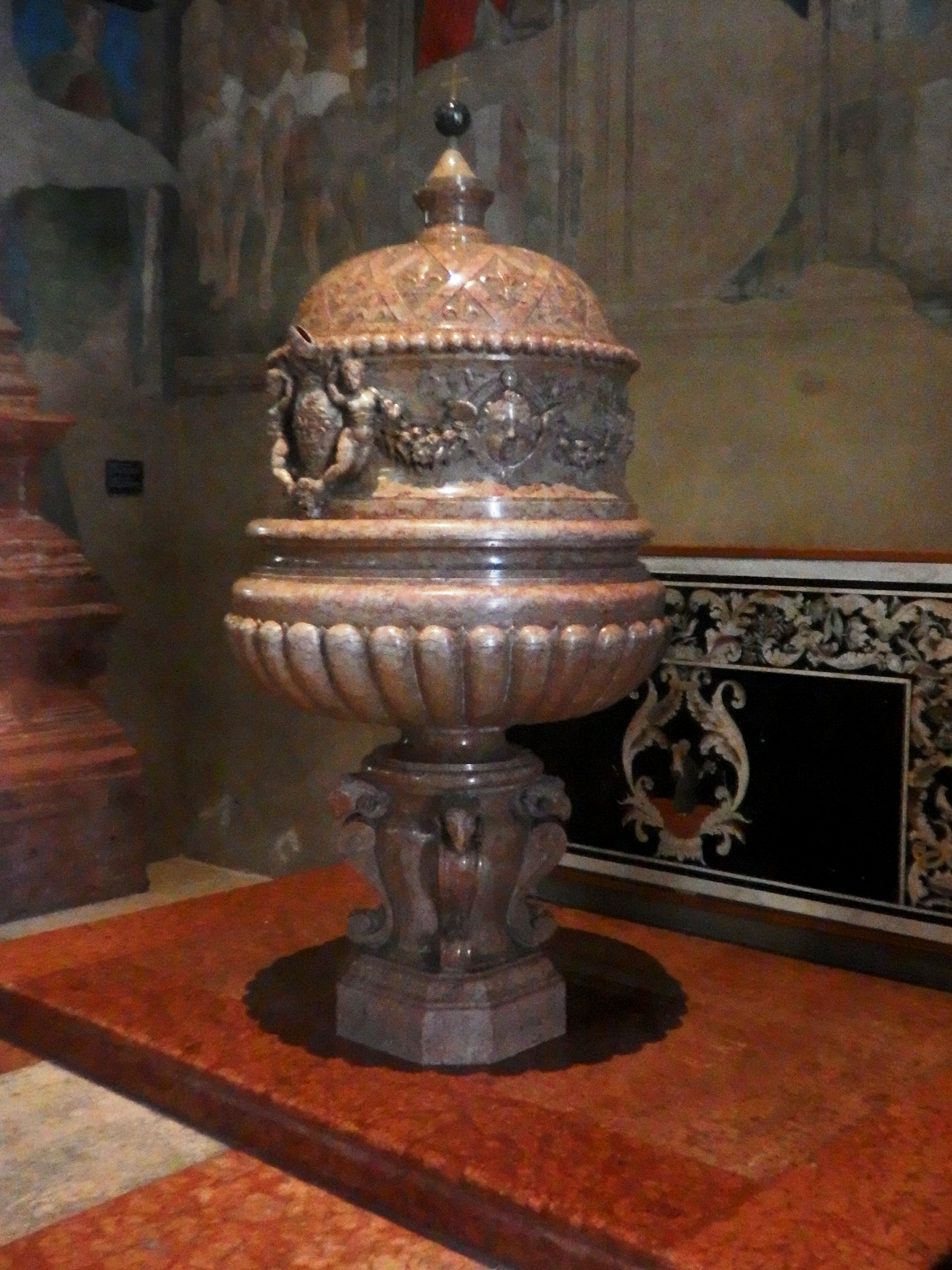 Modena, Italy. Cathedral, baptismal font.